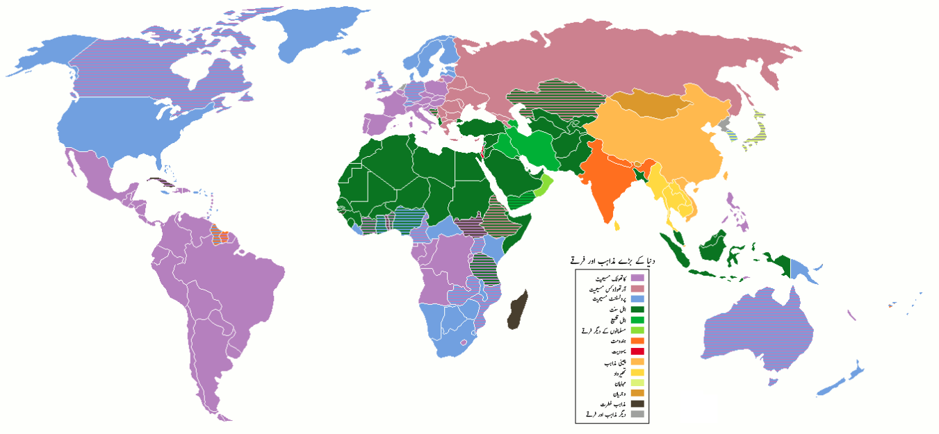 Translated version of File:Prevailing world religions map.png